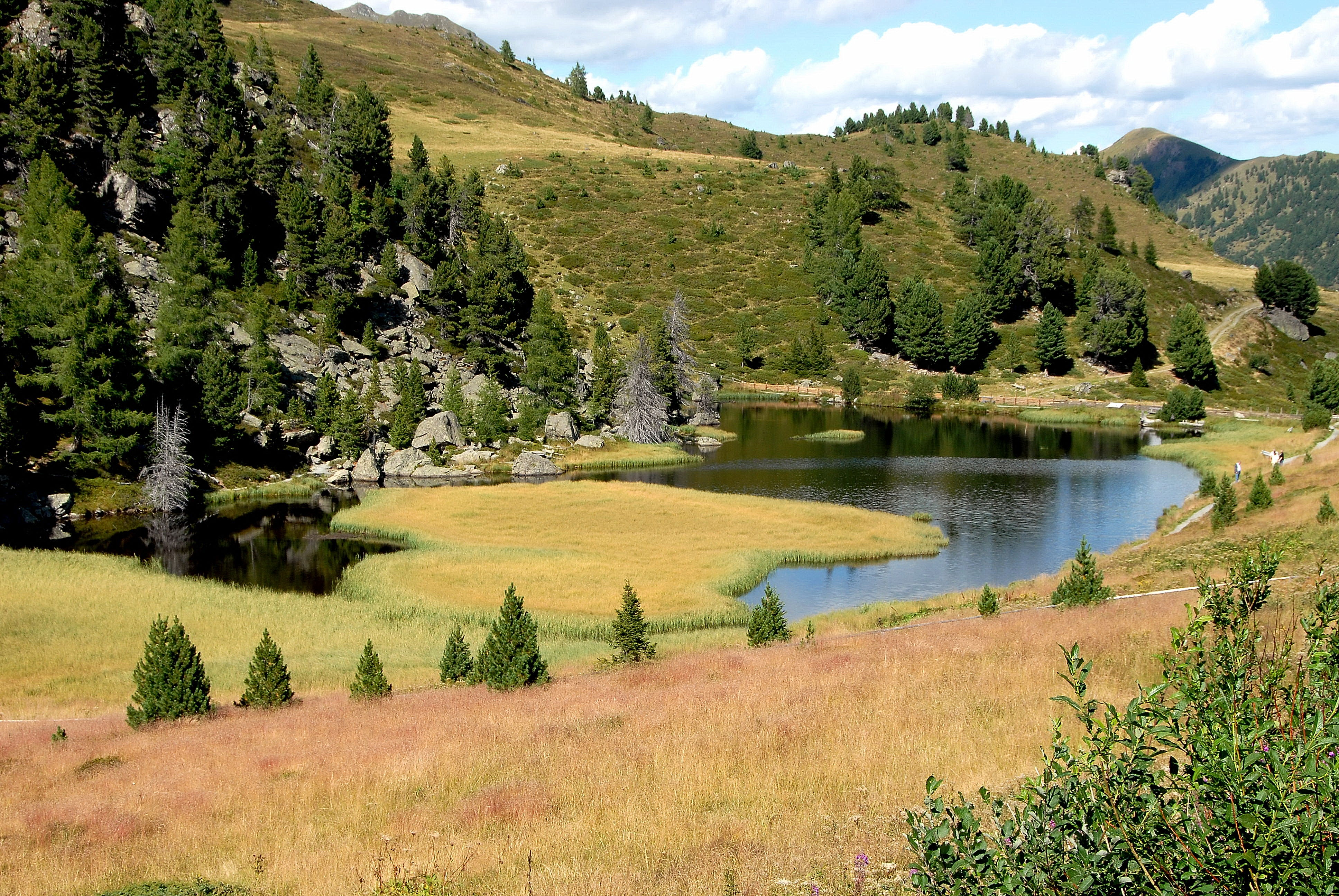 Windebensee (Lake Windeben) on the Nockalm road in the national park Nockalm, district Feldkirchen, Carinthia, Austria